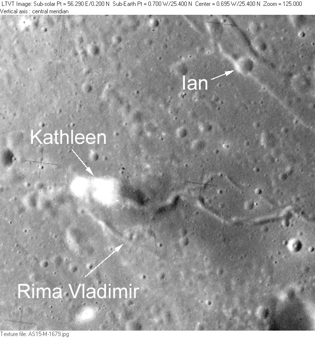 Moon craters Ian and Rima Vladimir. Detail from Apollo 15 metric image AS15-M-1679, remapped to a north-up aerial view by LTVT.